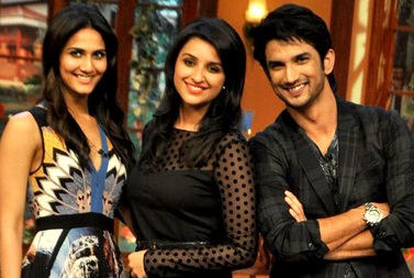 Vaani Kapoor, Parineeti Chopra and Sushant Singh Rajput promoting SHUDDH DESI ROMANCE on the sets of COMEDY WITH KAPIL